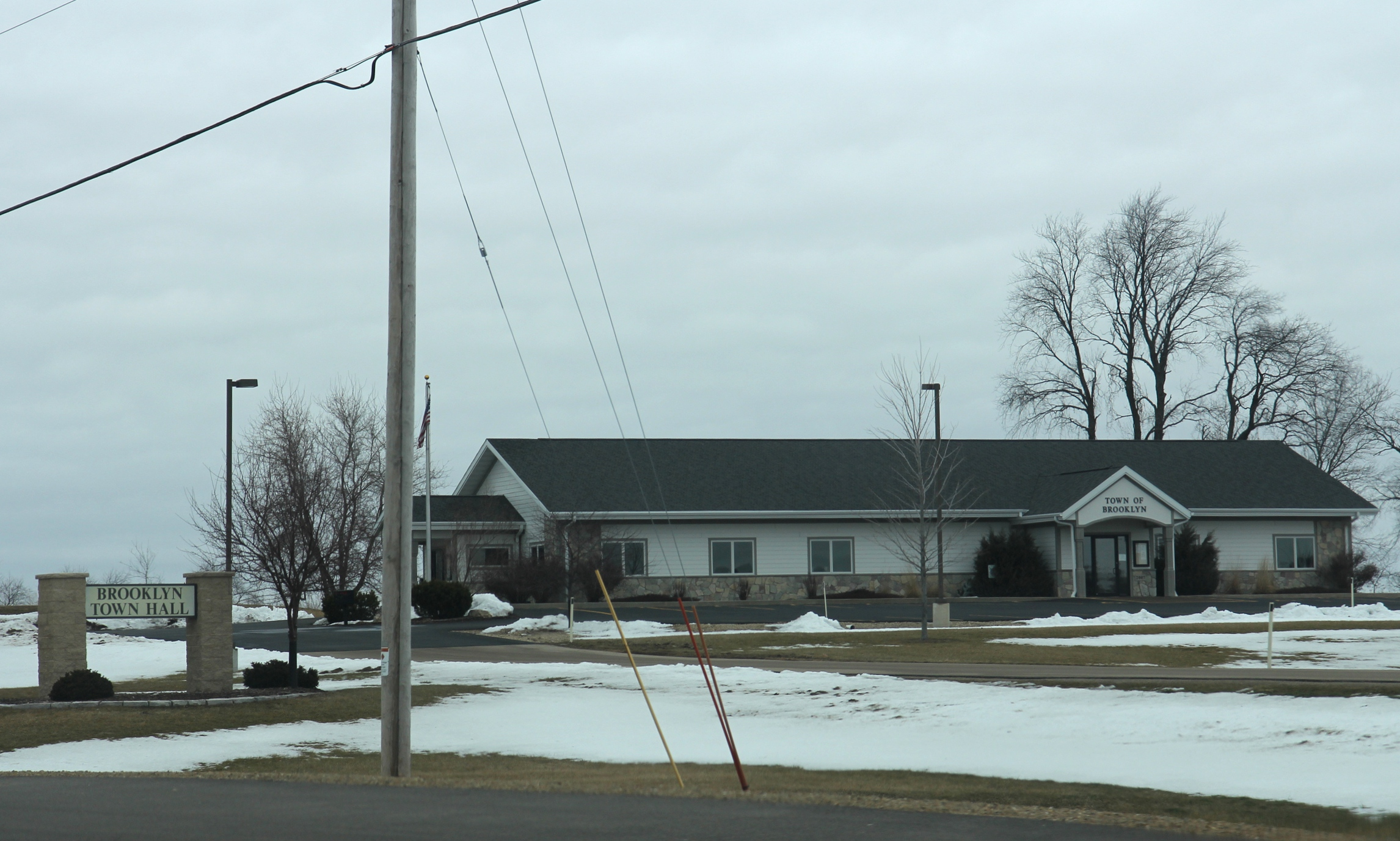 The town hall for the town of Brooklyn in Green Lake County, Wisconsin.